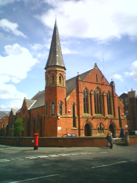 Didsbury Mosque, Barlow Moor Road, West Didsbury, Greater Manchester, seen from the southwest